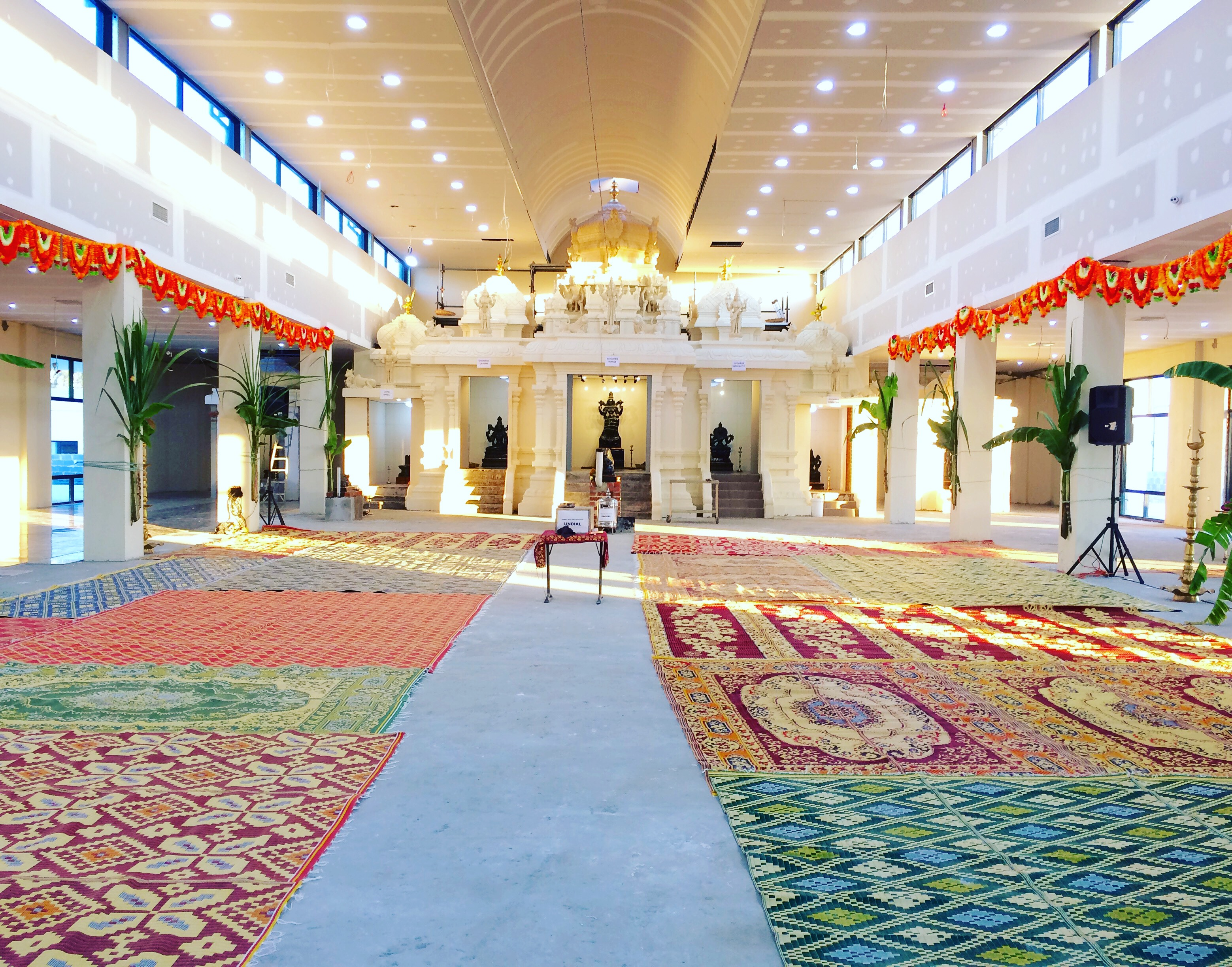 Sydney Durga Temple Interior